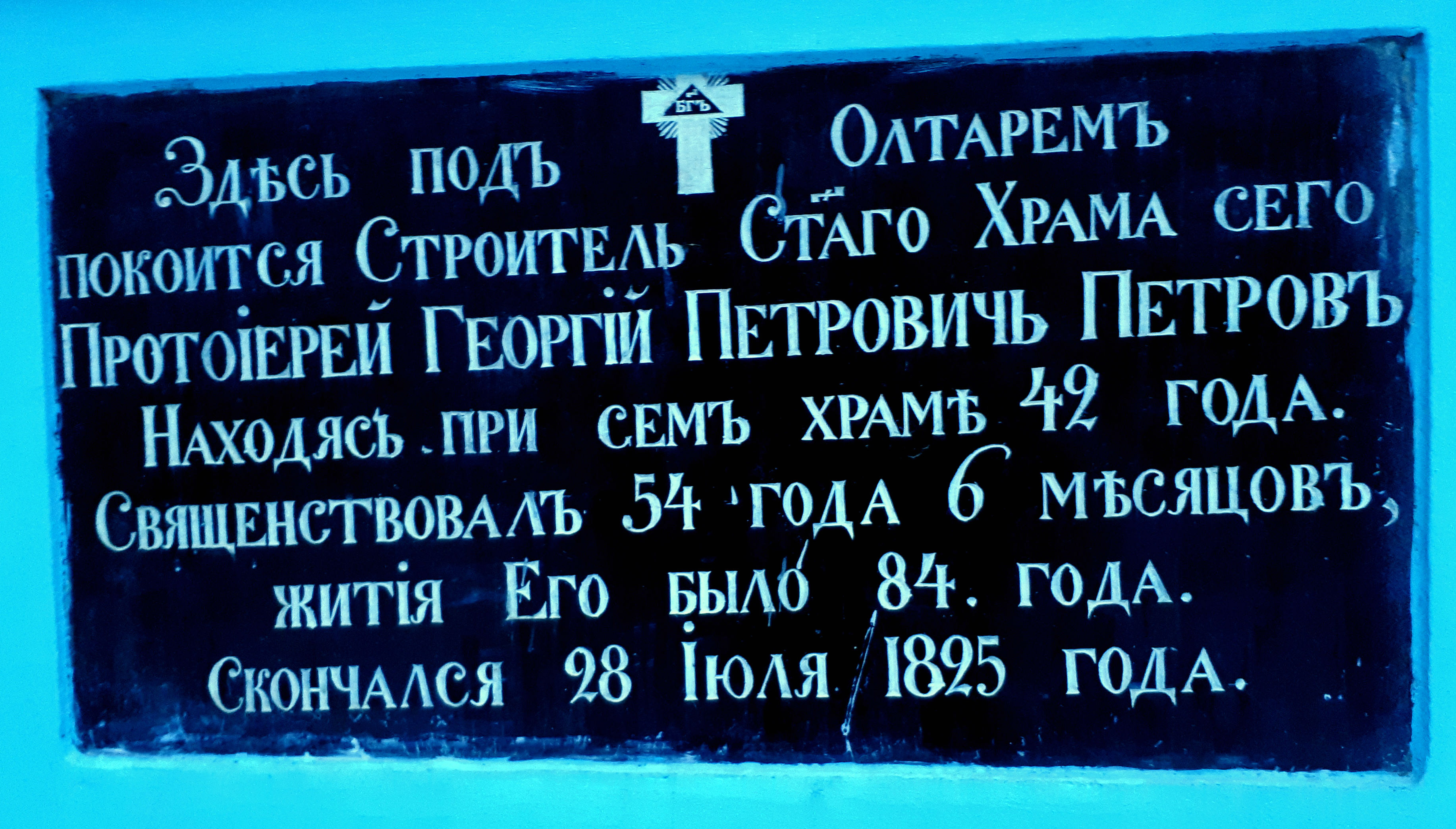 Church of the Smolensk Icon of the Mother of God: Kamskaya Street, 24. Vasileostrovsky District, St. Petersburg.